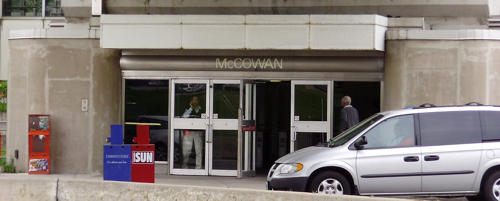 The entrance to the Toronto Transit Commission's McCowan station, photographed from the east side of McCowan Road in Scarborough, Canada.